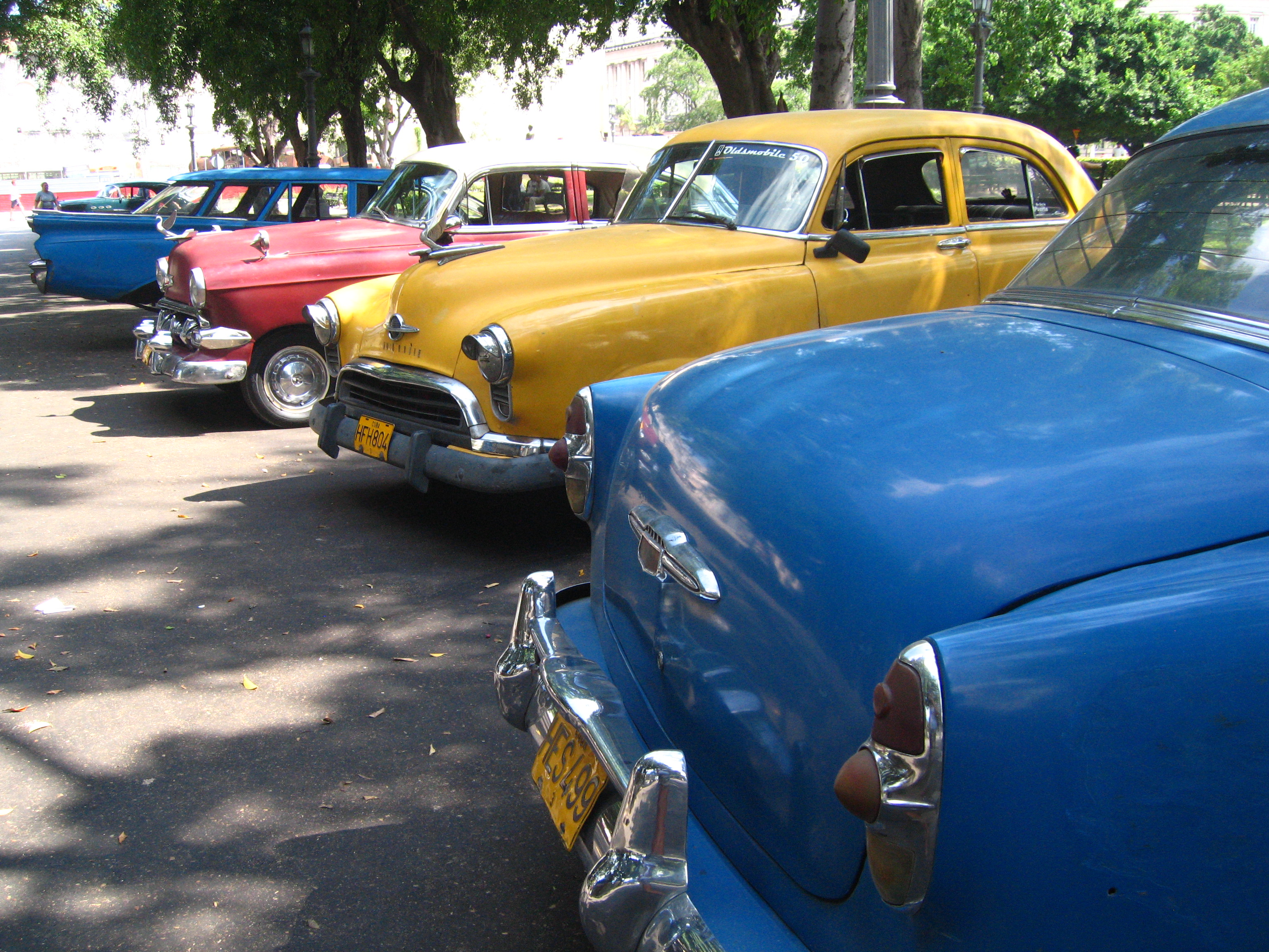 Regular cars in Cuba